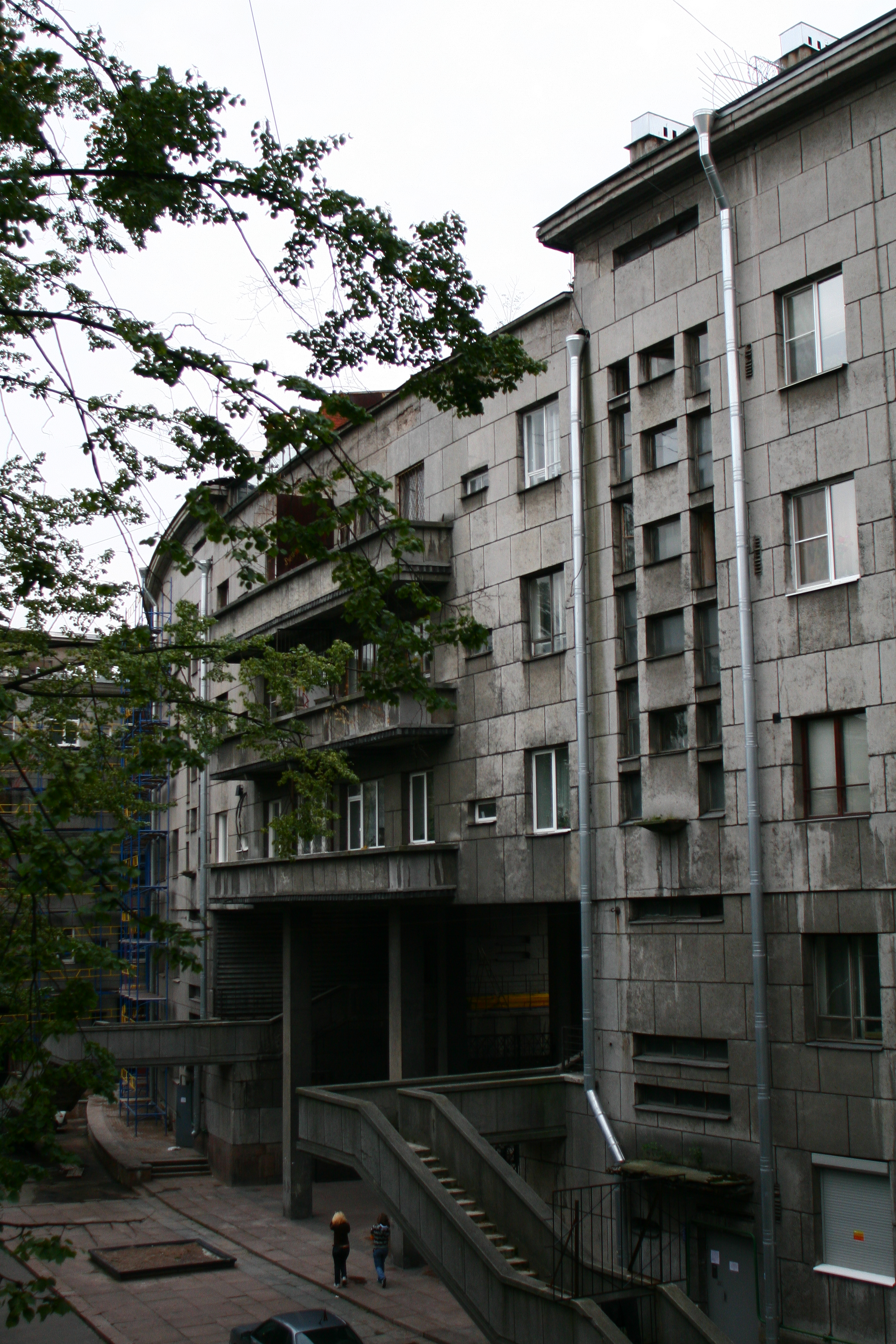 Levinson and Fomin. The house of Lensovet